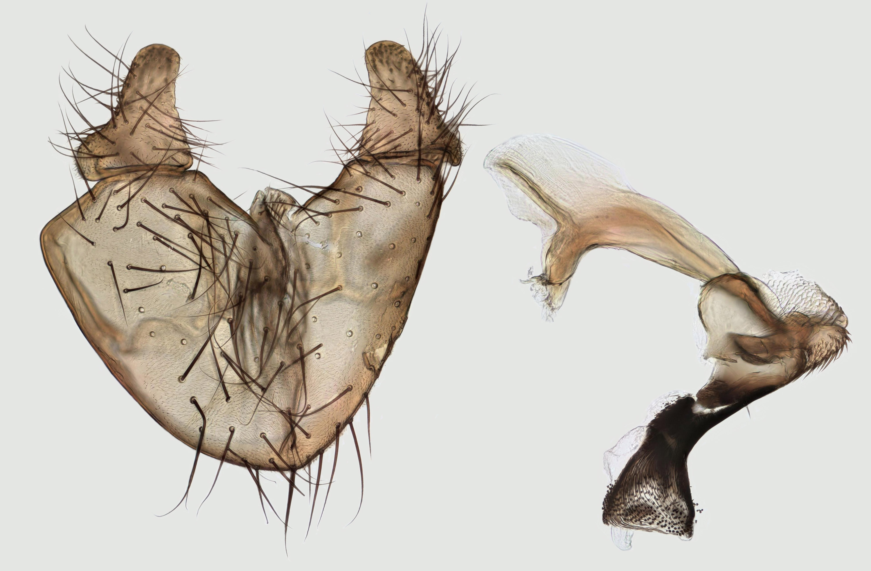 Suillia variegata male, Flint, North Wales, May 2017 2